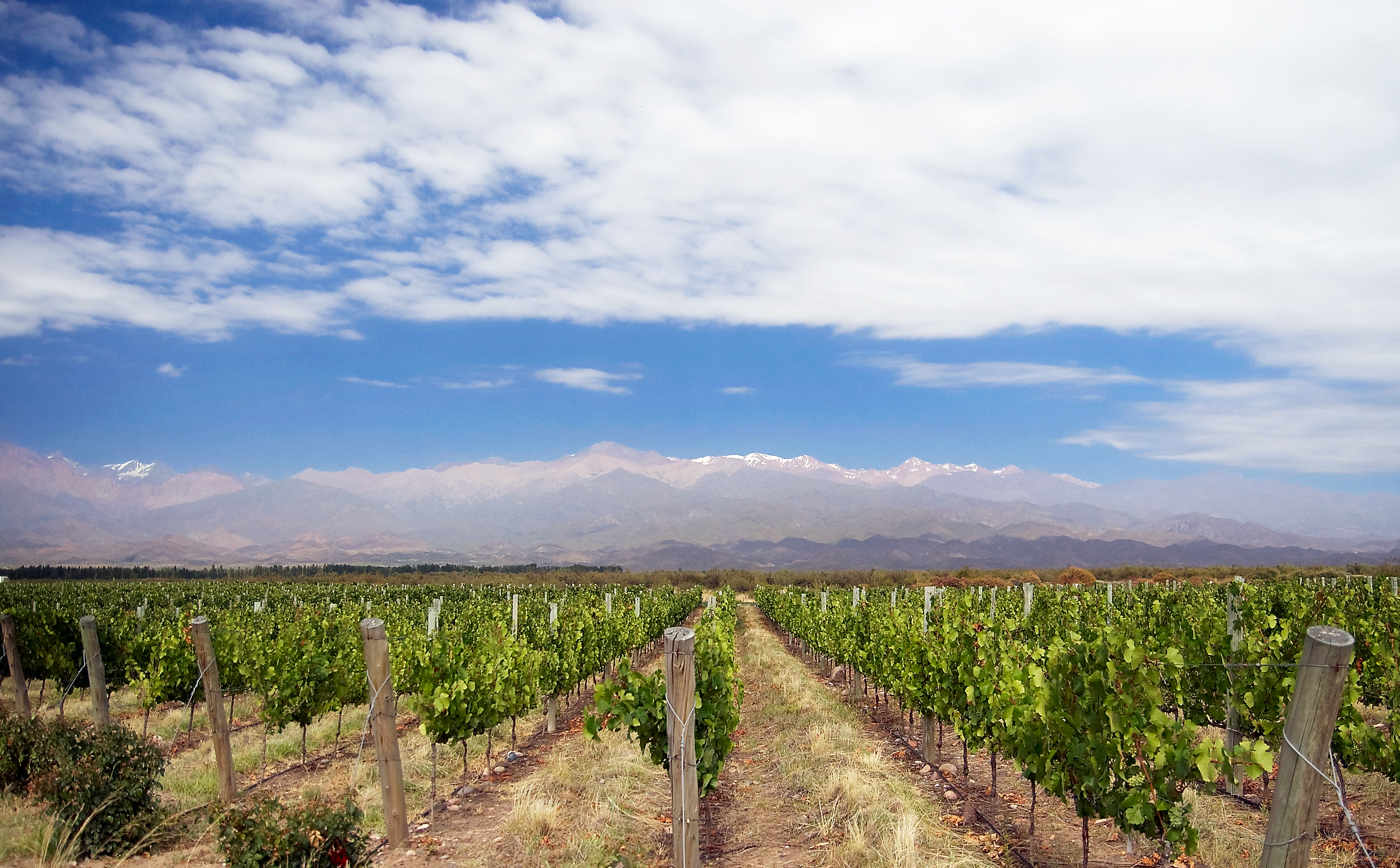 Vineyard near Los Árboles in Uco Valley, Mendoza, Argentina, in front of the Andes Mountains.